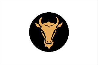 Flag of Glodeni District (Moldova)